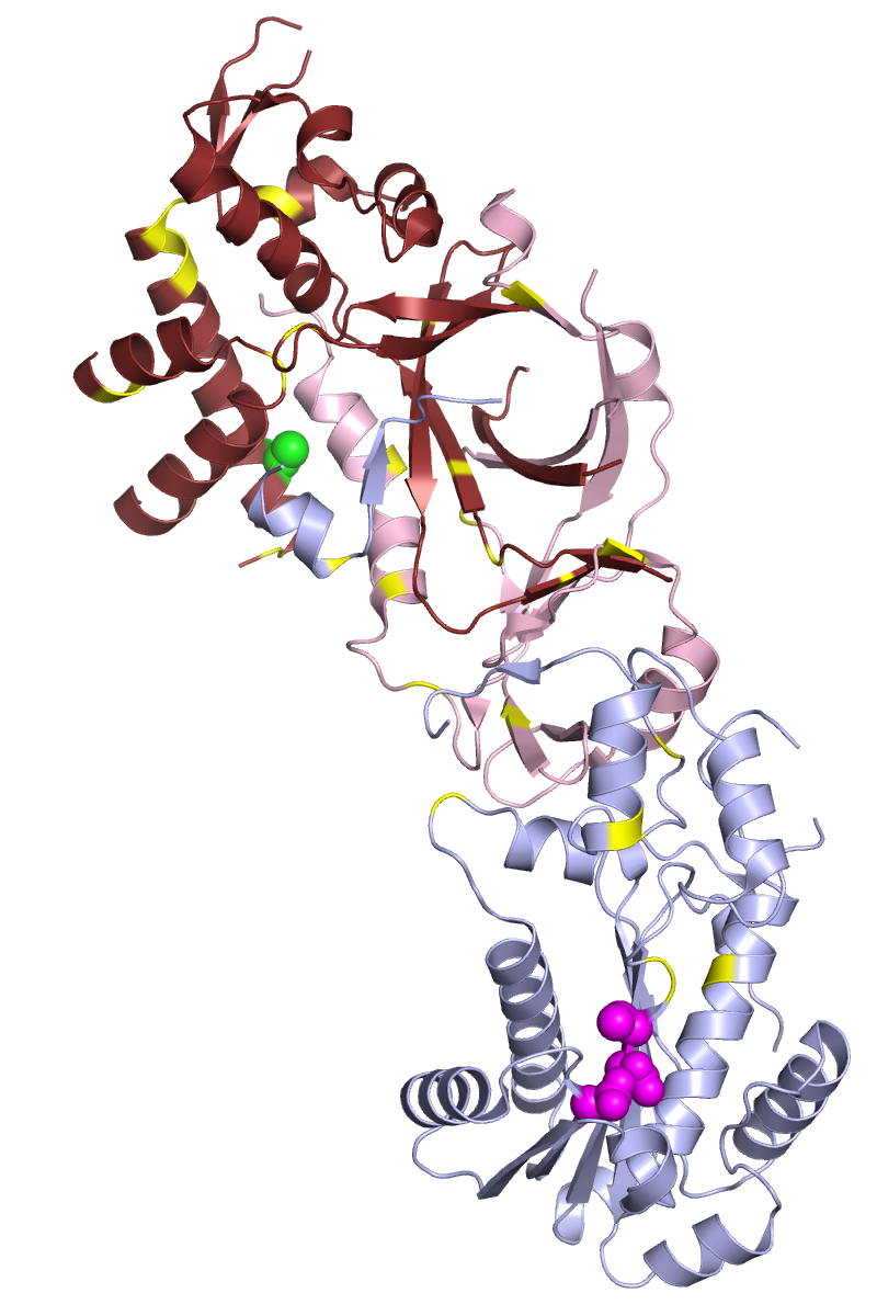 The human ribonuclease H2 complex. The catalytic subunit (RNASEH2A) is in light blue, the structural subunit RNASEH2B is in brown, and the structural subunit RNASEH2C is in pink. The position of the catalytic residues in the A subunit is indicated with magenta spheres. The positions of residues whose mutation is associated with Aicardi-Goutieres Syndrome are indicated in yellow, with the exception of the most common AGS mutation (A177T in the B subunit), which is shown with a green sphere. Rendered from PDB 3PUF chains A, B, C, described in the paper: The structural and biochemical characterization of human RNase H2 complex reveals the molecular basis for substrate recognition and Aicardi-Goutieres syndrome defects. Figiel, M., Chon, H., Cerritelli, S.M., Cybulska, M., Crouch, R.J., Nowotny, M. (2011) J.Biol.Chem. 286: 10540-10550 PubMed: 21177858 PubMedCentral: PMC3060507